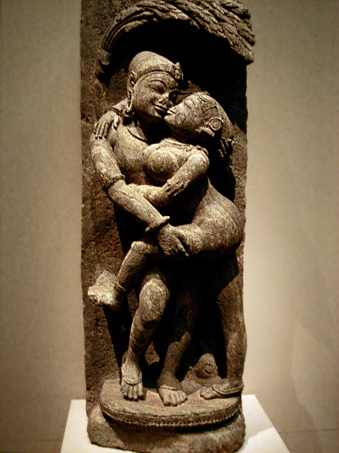 Original caption from photographer "Rosemaniakos" on Flickr: Loving couple (mithuna), Eastern Ganga dynasty, Period: 13th century Origin: Orissa, India Material: Ferruginous stone; Height: 72 in. (182.9 cm) Metropolitan # (1970.44) (further description on Flikr page but as stated there, text is copyrighted).